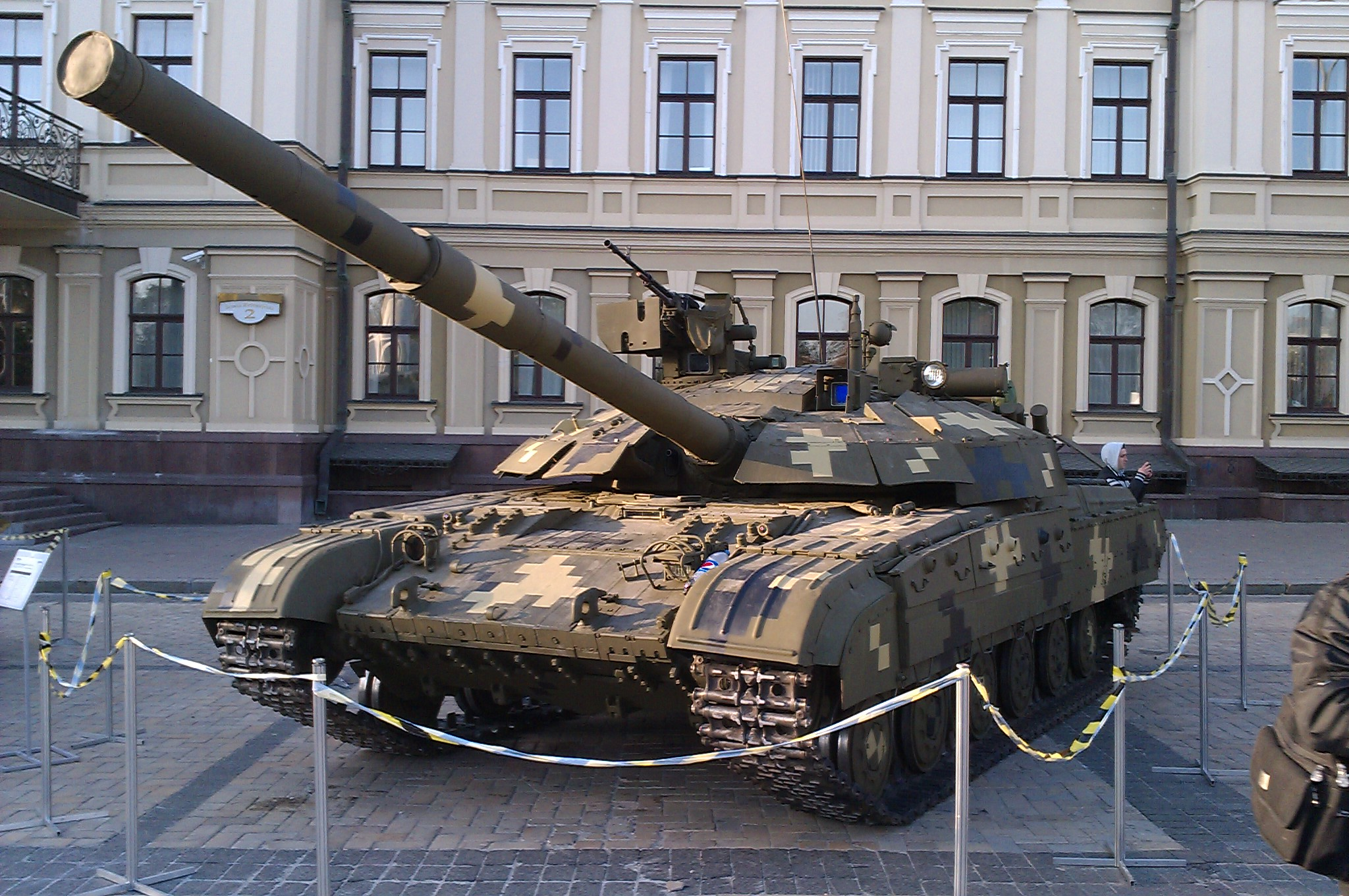 BM «Bulat» at the exhibition «The Power of unconquered» on the Day of the defender of Ukraine